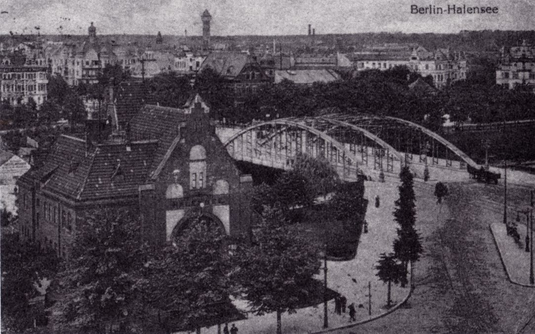 Berlin - railway station Halensee and Halenseebrücke, postcard around 1900